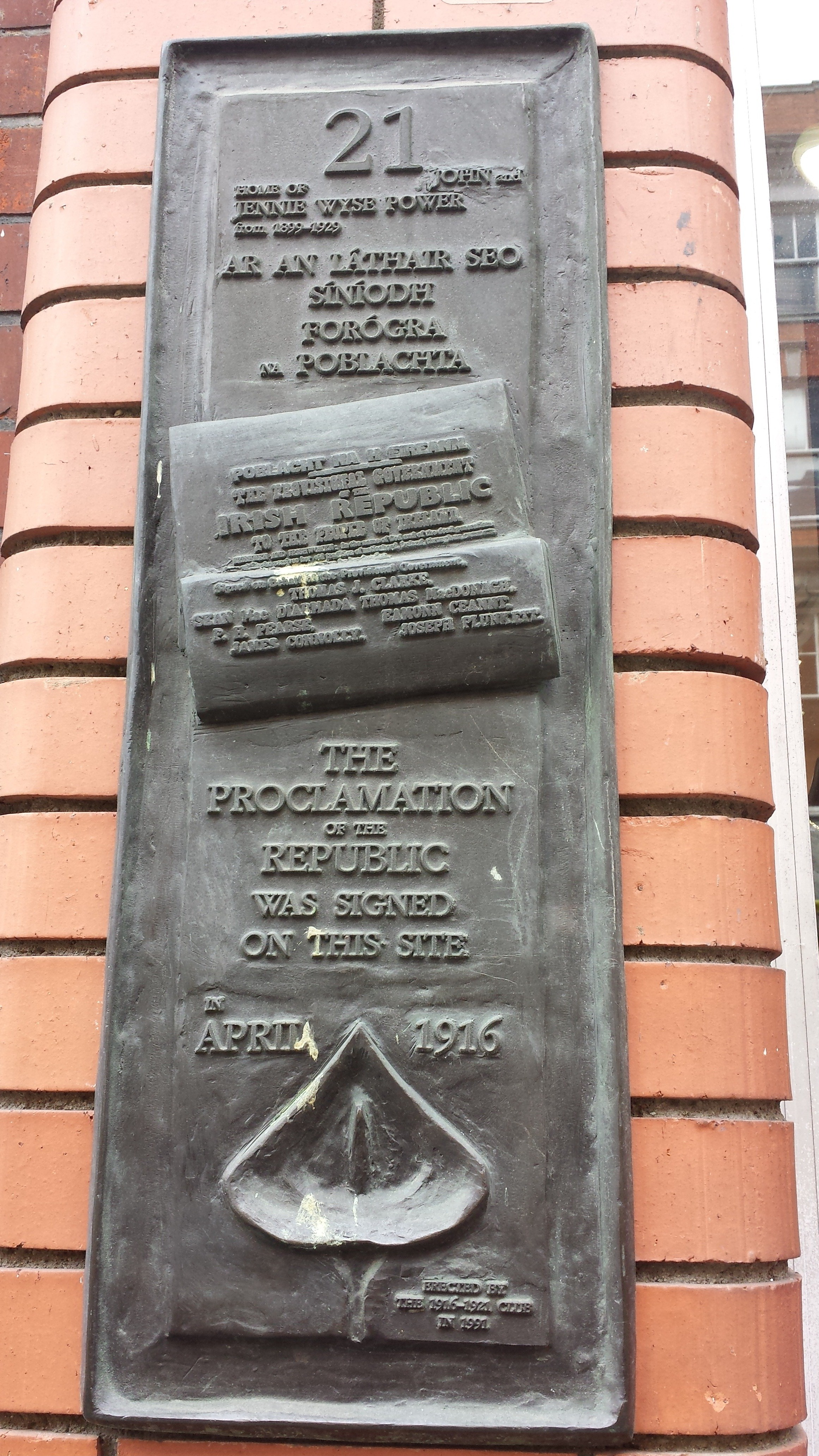 21 home of John and Jennie Wyse Power from 1899-1929 ar an lathair seo siniodh fogogra na poblachta The Proclamation of the Republic was signed on this site in April 1916. (A plaque at 21 Henry Street in Dublin).